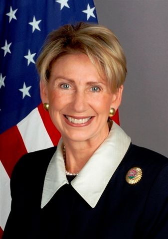 Barbara McConnell Barrett. U.S. Ambassador to Finland 2008–09